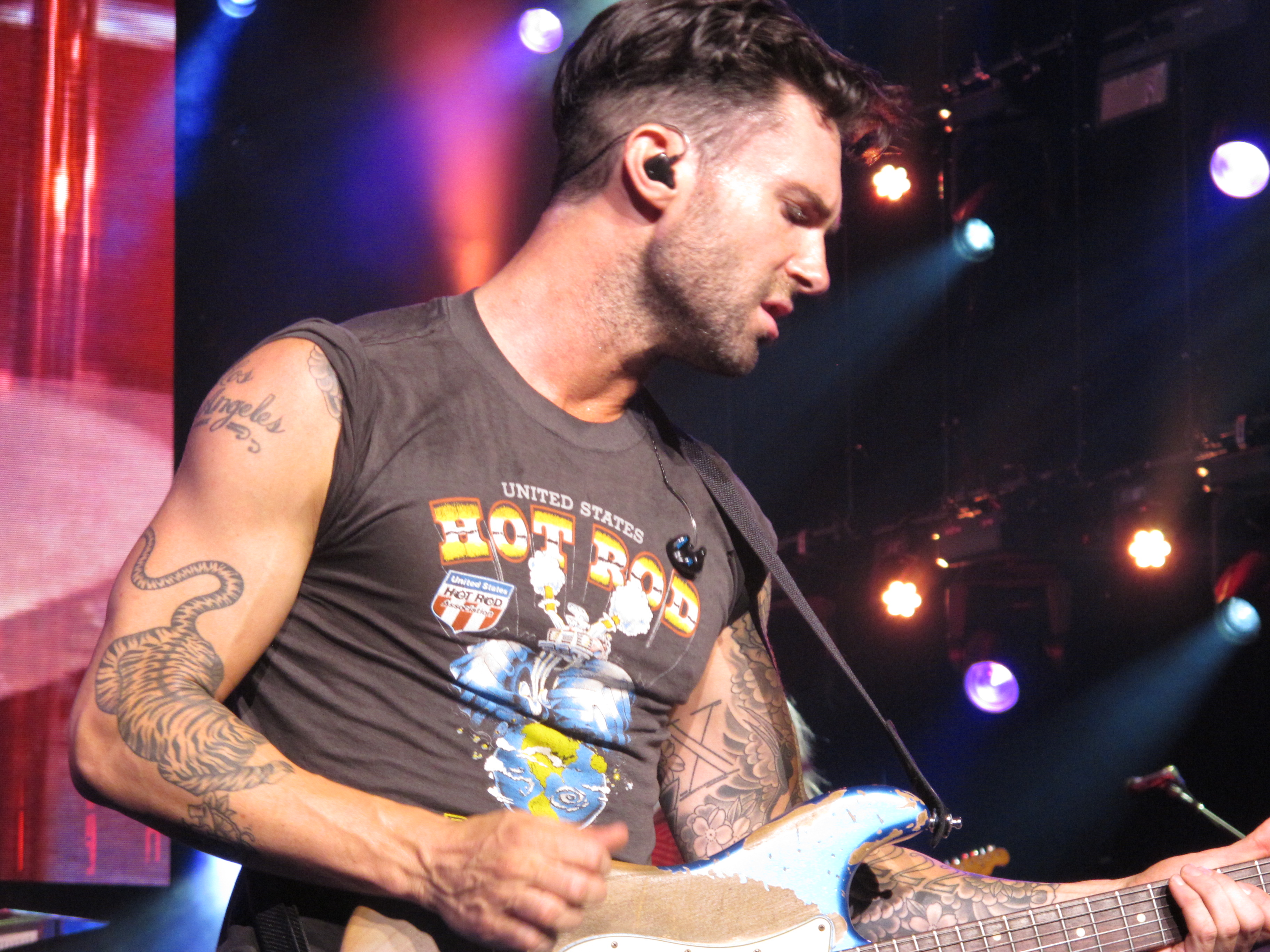 Adam Levine